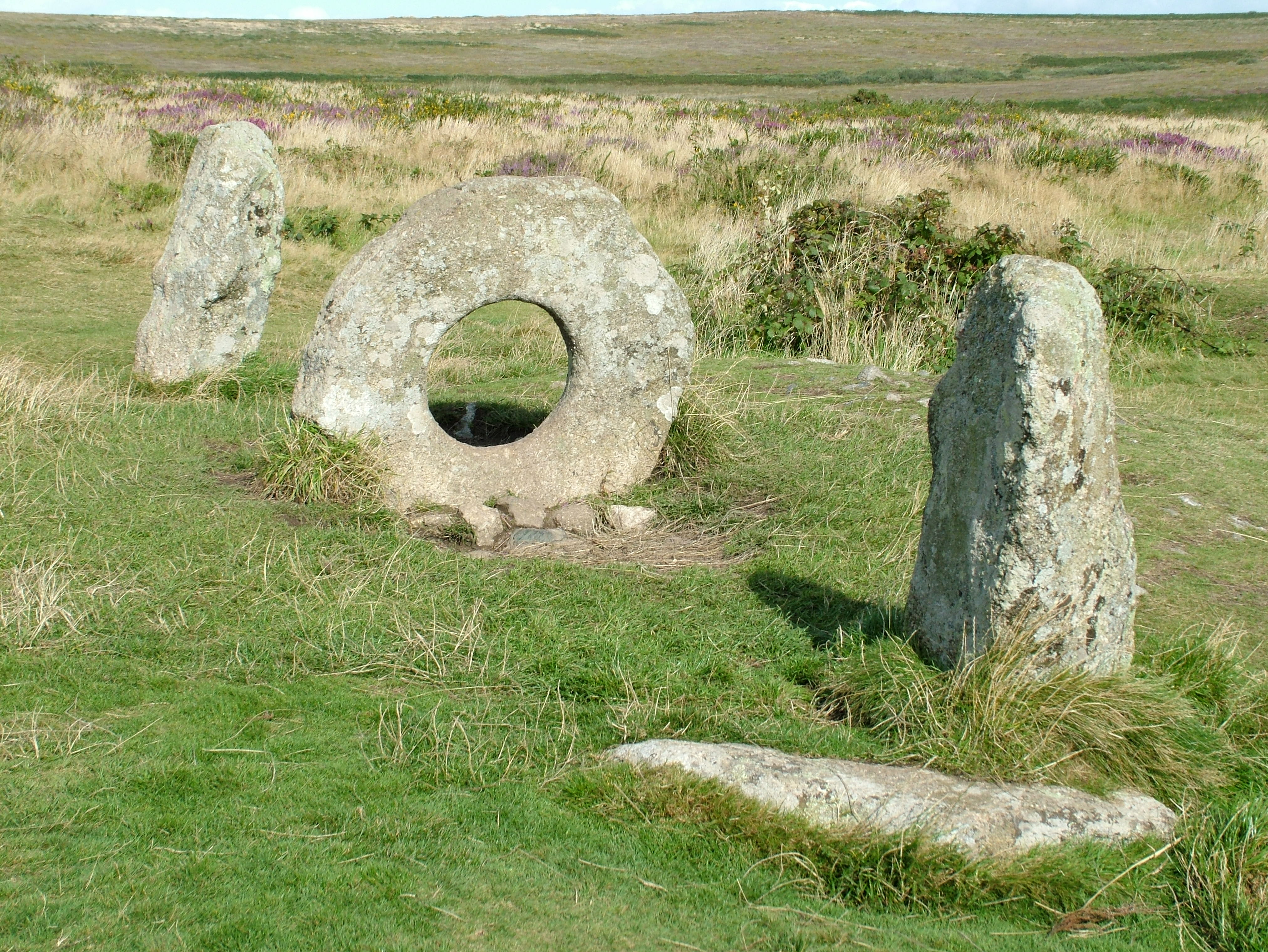 Mên-an-Tol, Morvah, Cornwall